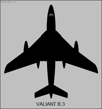 Plan-view silhouette of the Vickers Valiant B.3 proposal